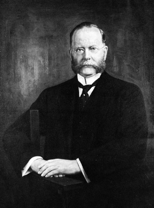 William C. Redfield